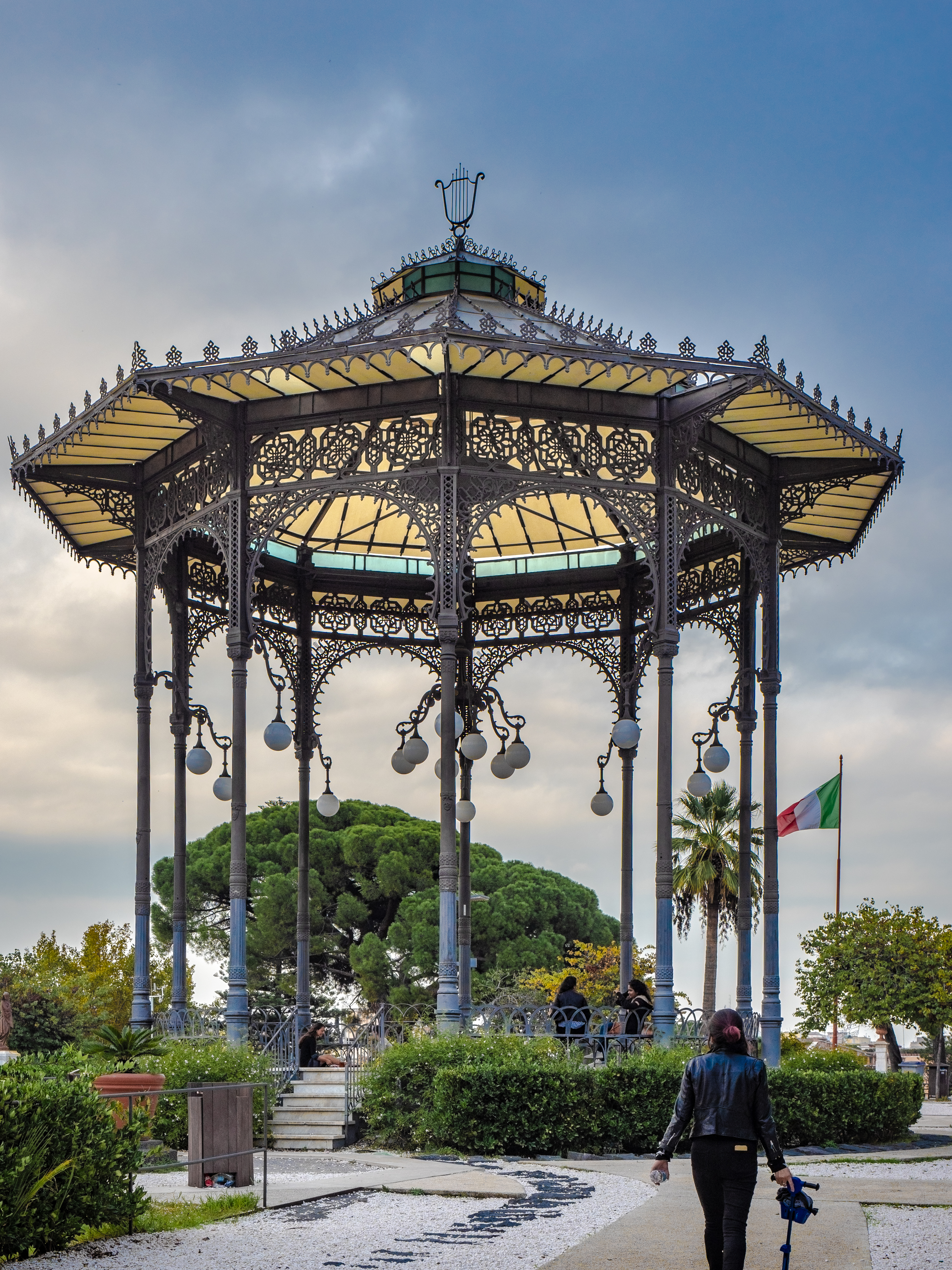 Giardino Villa Ballinie